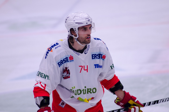 Davide Nicoletti, 11.10.2013, Stadthalle Villach, EC VSV vs. HC Bozen // frostworx Pictures © 2013, PhotoCredit: frostworx / Alex Micheu